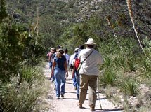 A group of people hiking in the Guadalupe Mountains National Park, Texas, United States